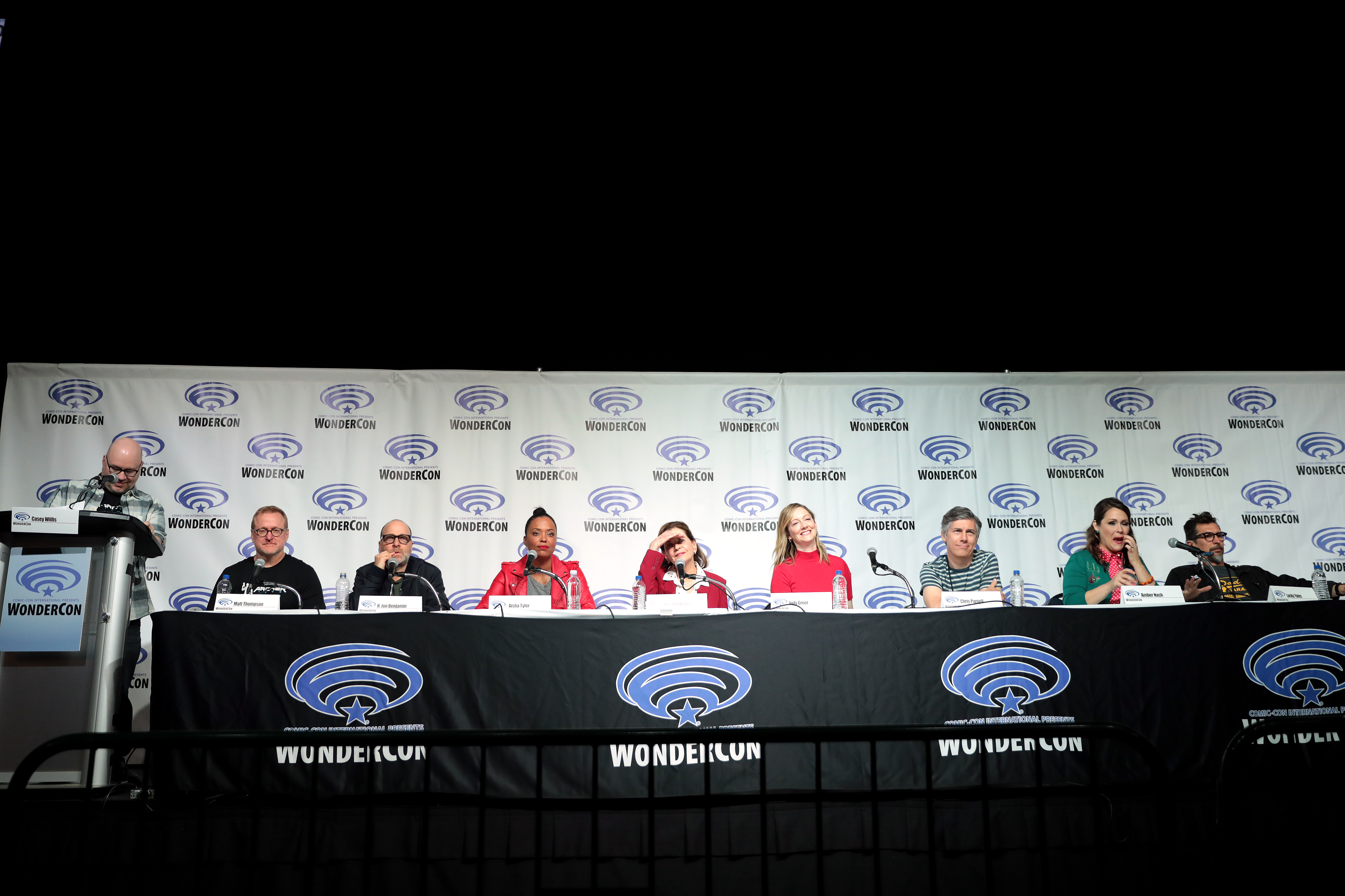 Casey Willis, Matt Thompson, H. Jon Benjamin, Aisha Tyler, Jessica Walter, Judy Greer, Chris Parnell, Amber Nash and Lucky Yates speaking at the 2019 WonderCon, for "Archer", at the Anaheim Convention Center in Anaheim, California.